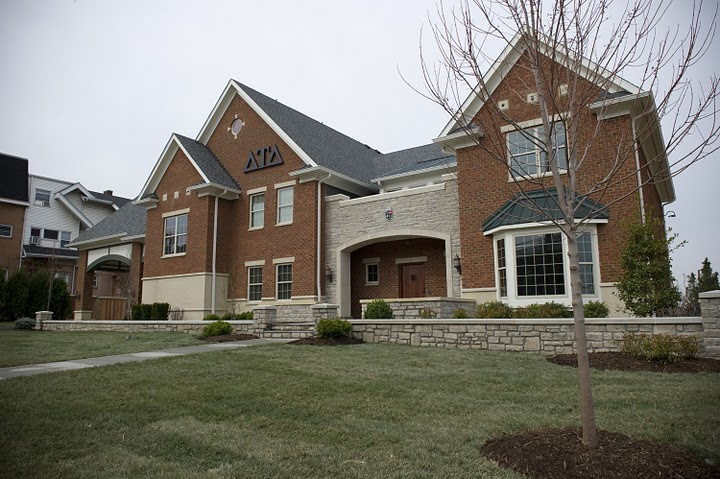 Delta Tau Delta House at the University of Cincinnati